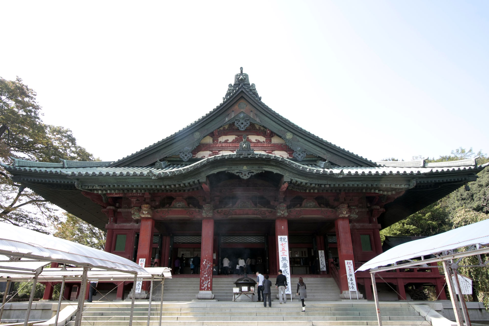 Daikoin, Ōta,_Gunma, Japan.